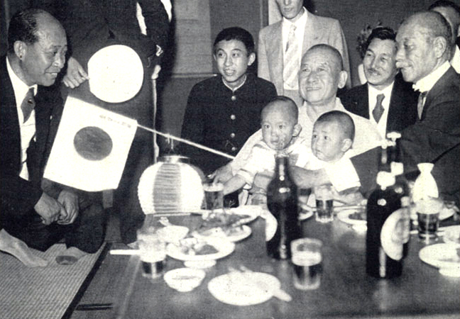 Japanese Prime Minister Keisuke Okada (岡田啓介, 1868–1952, in office 1934–36, center, holding babies) and the members of his family celebrate Okada's inauguralation. To the right of Okada is his brother-in-law, Denzō Matsuo (松尾伝蔵).